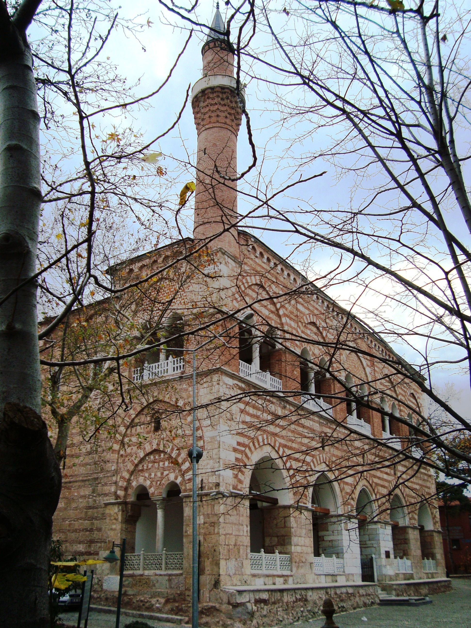 HÜDAVENDİGAR CAMİİ